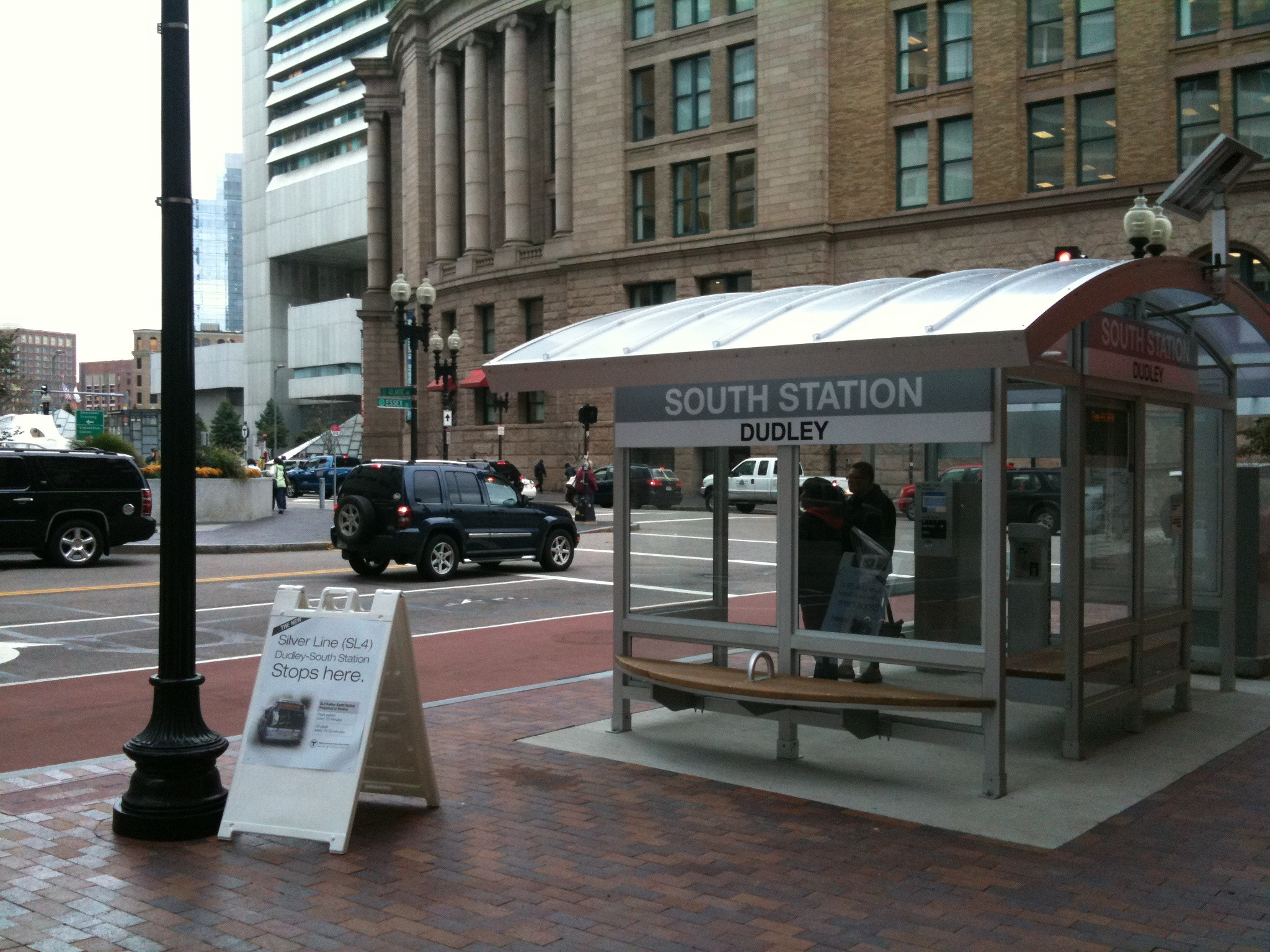 Shelter at South Station in Boston, Massachusetts for the Silver Line SL4 service that began on October 13, 2009. South Station is in the background, across Atlantic Avenue. Note red "bus only" lane.